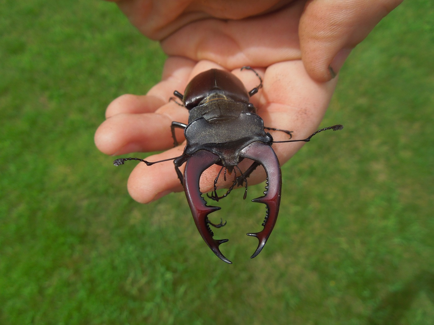 72 mm